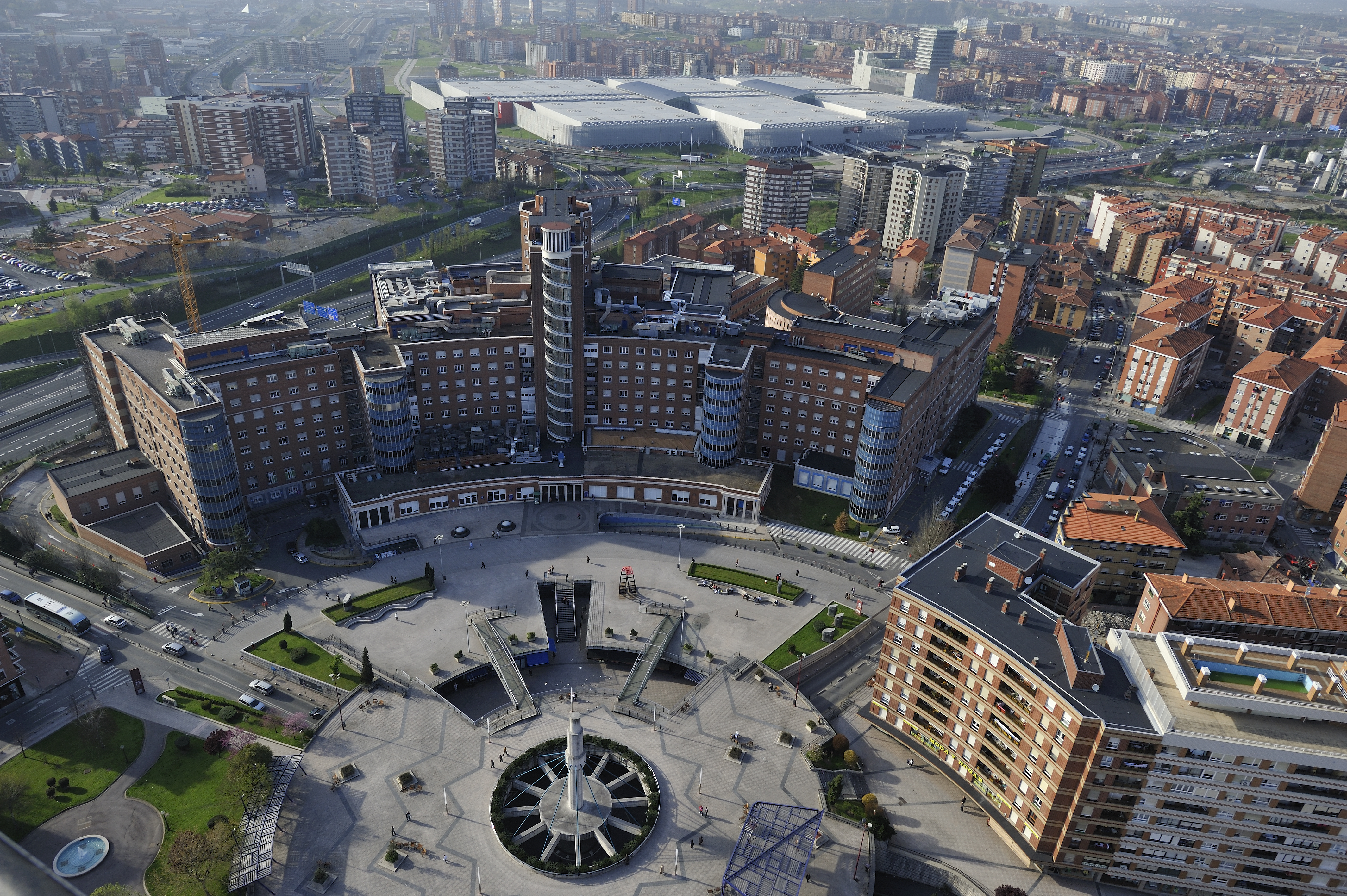 Gurutzeta Cruces Hospital Osakidetza